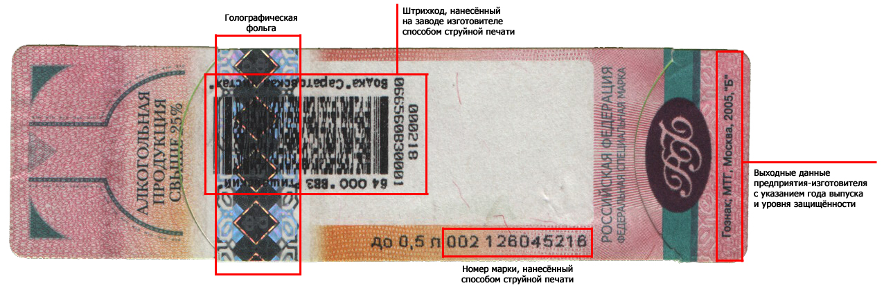 Russia. Element of excise stamp, 2005